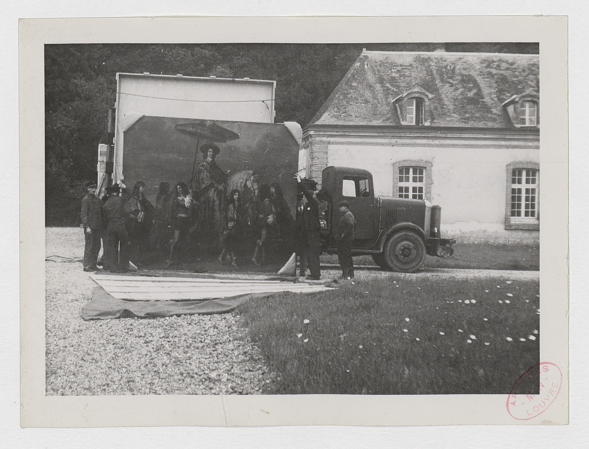 Château de Chèreperrine, sortie du portrait équestre du chancelier Séguier